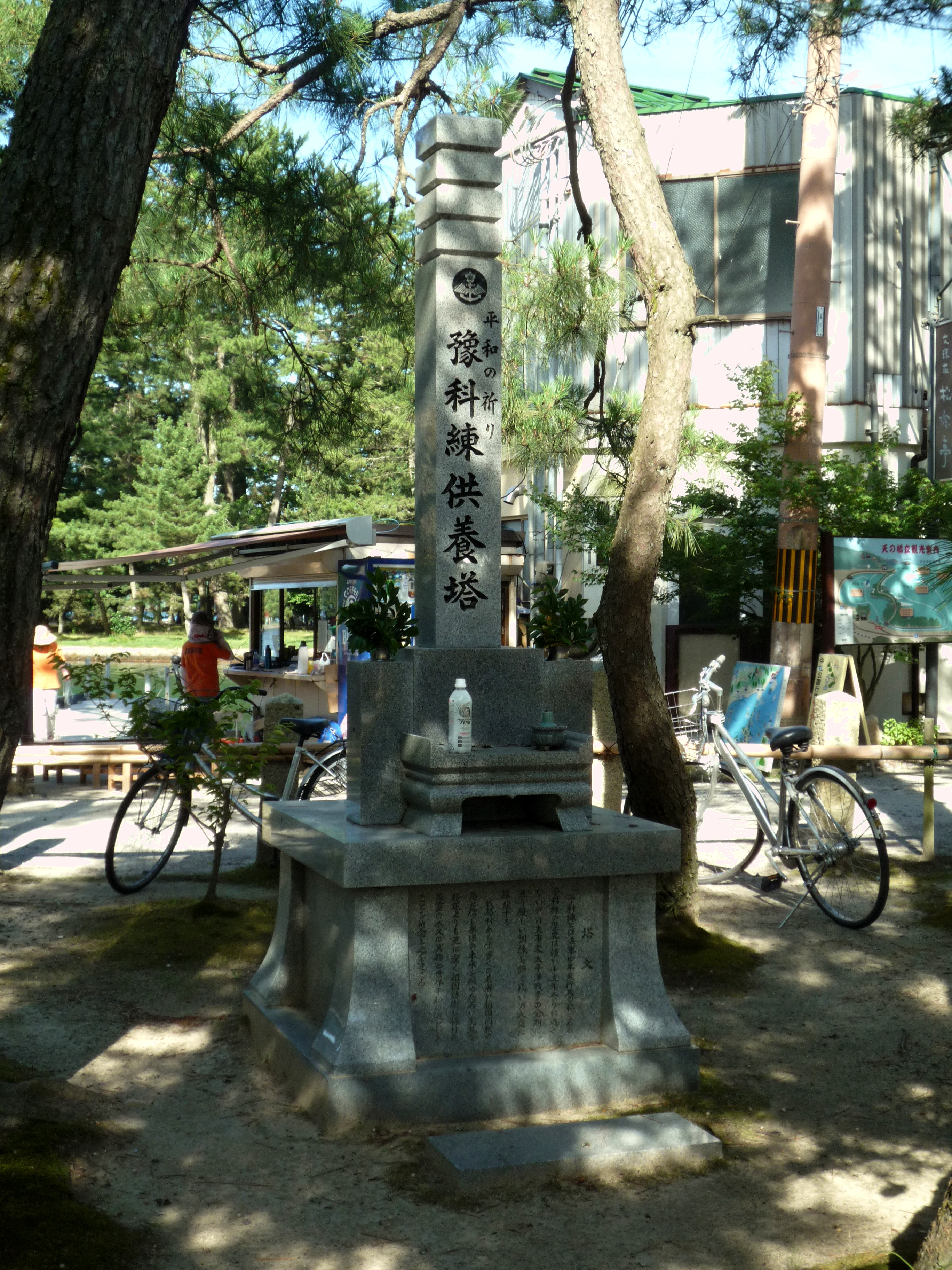 Yokaren Memorial Monument of Chionji, at Miyazu City, Kyoto Prefecture.